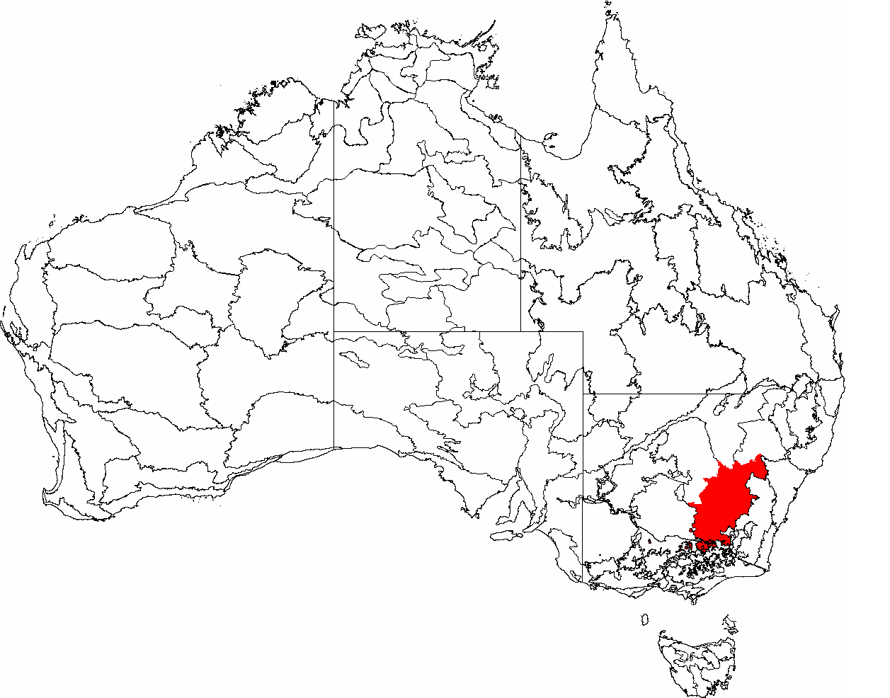 This is a map of the Interim Biogeographic Regionalisation of Australia (IBRA), with state boundaries overlaid. The NSW South Western Slopes region is shown in red.